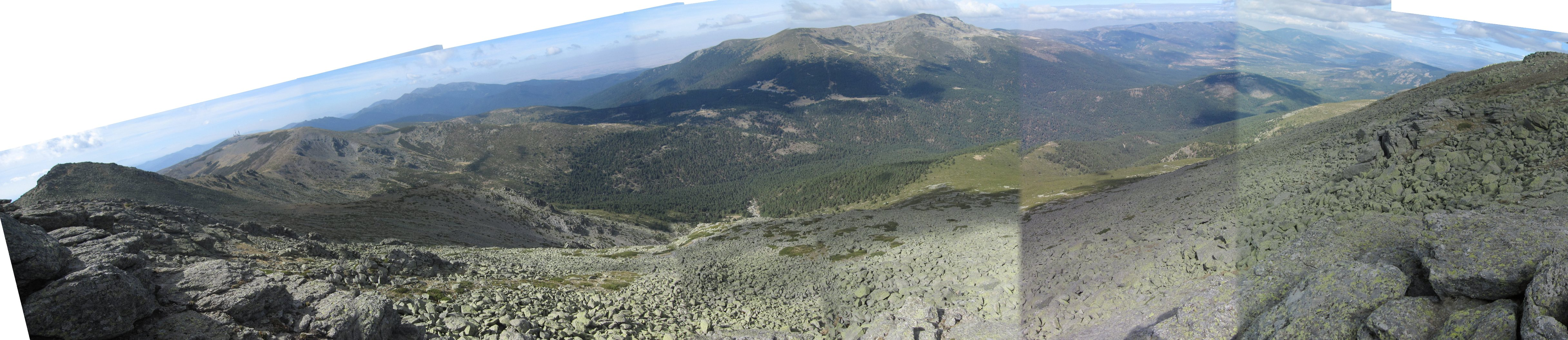 Panoramic view to the North from Cabezas de Hierro's summit (Guadarrama mountain range, central Spain).